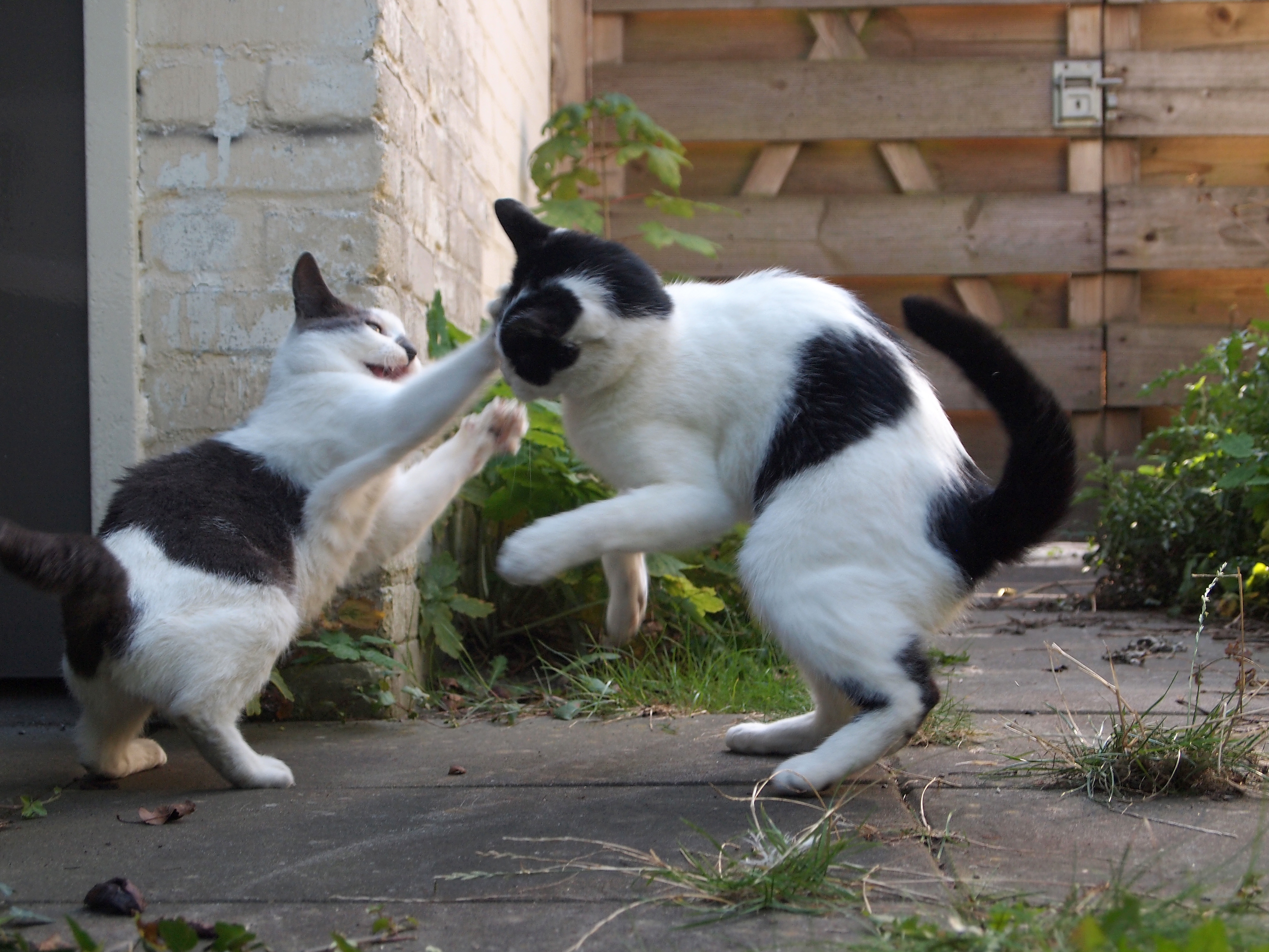 Two house cats jump at each other as one paws the other in the head.